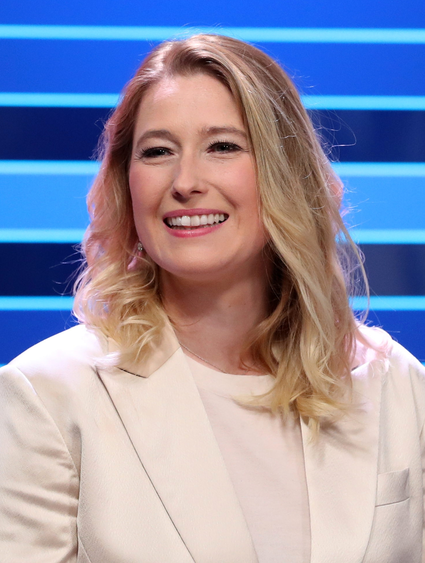 Election night Bürgerschaft of Bremen 2019: Lencke Steiner (FDP)